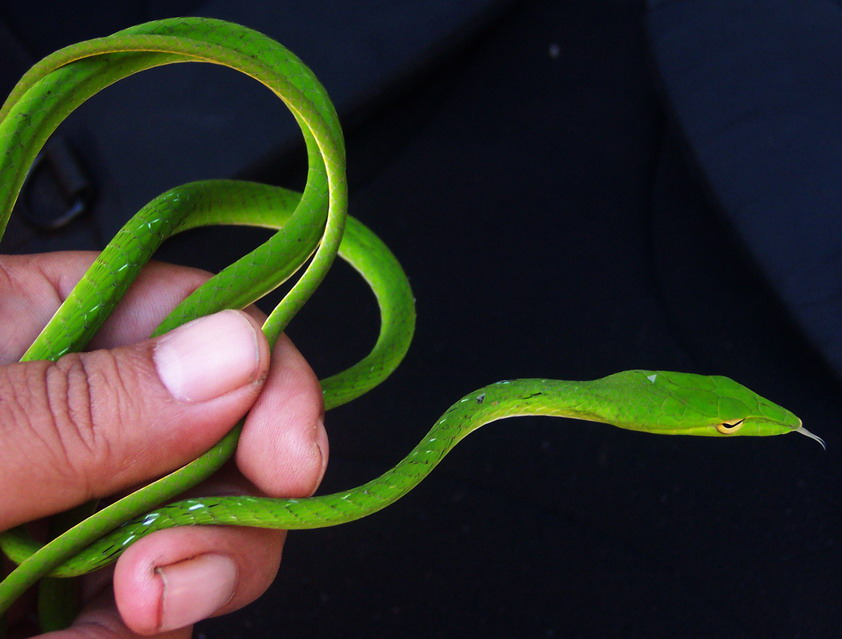 Oriental whipsnake, Ahaetulla prasina; from Jabranti, Kuningan, West Java, Indonesia